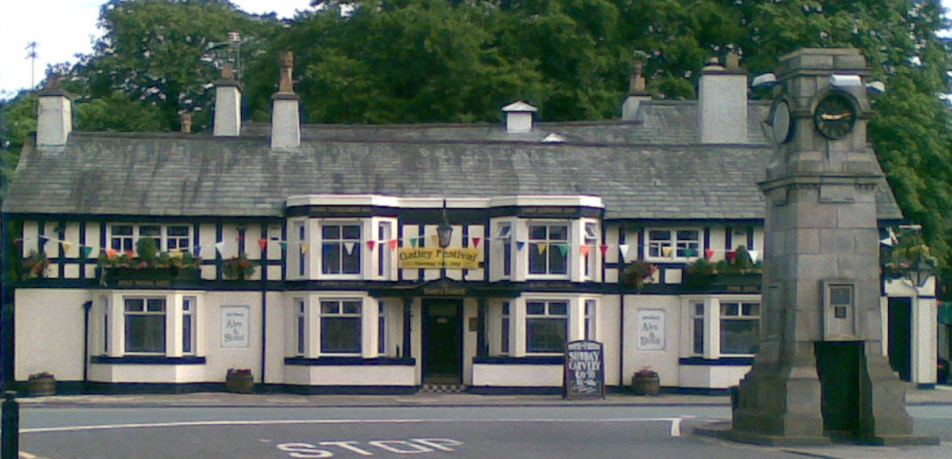 Horse and Farrier pub, Gatley, Greater Manchester, England.